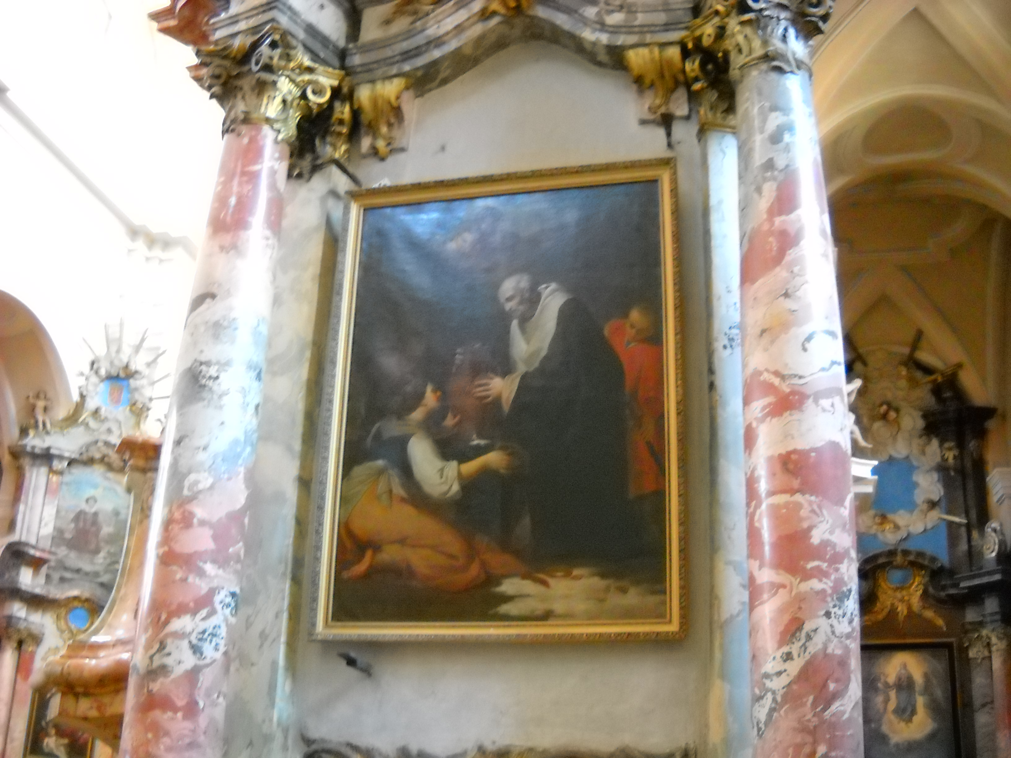 Church of All Saints in Vilnius. "The miracle of St. John Kanty" in one of the altars.